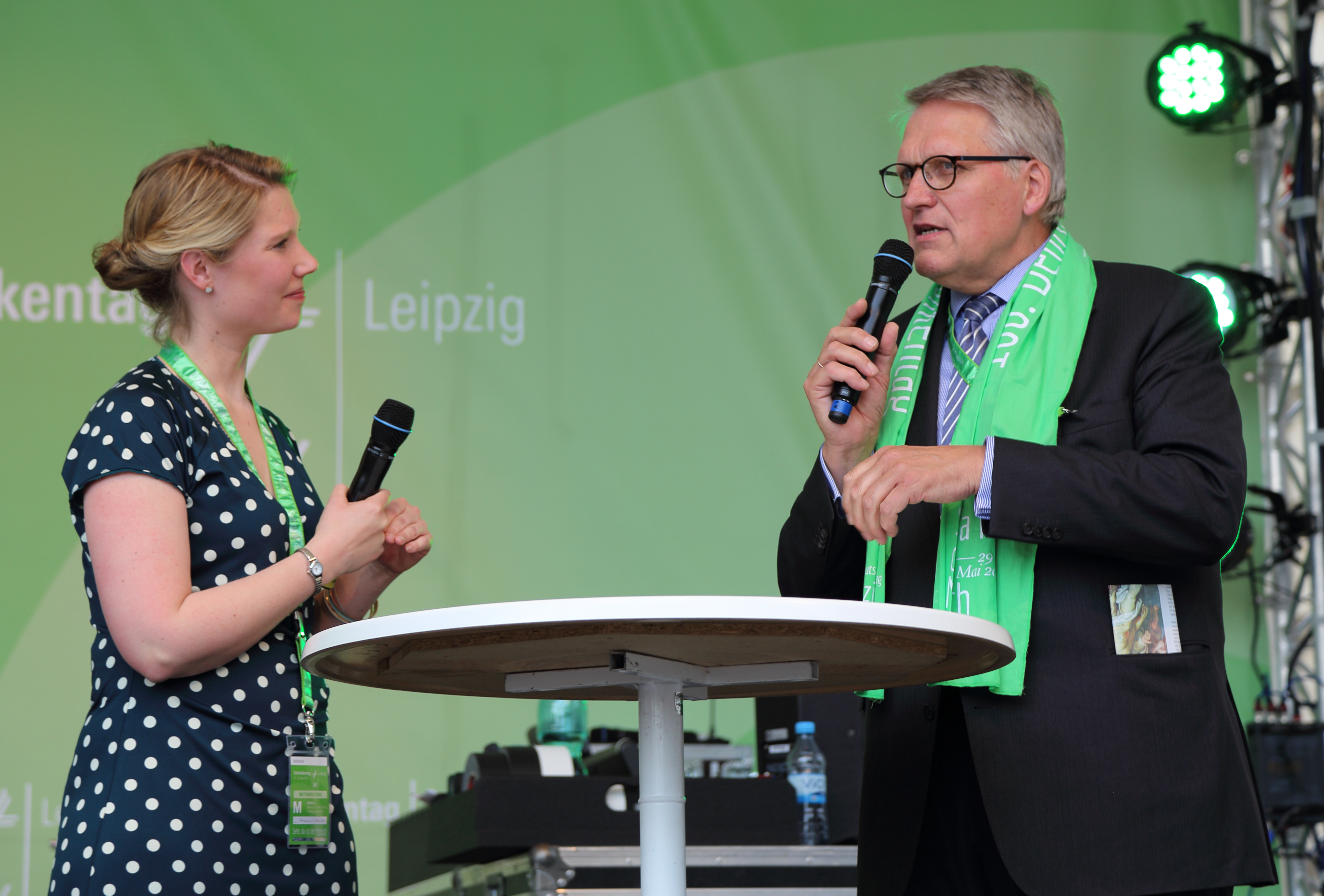 Professor Dr. Thomas Sternberg, chairman of the Central Committee of German Catholics (Zentralkomitee der deutschen Katholiken, ZdK), in conversation with moderator Stephanie Heinrich. Picture taken at the occasion of the 100th German Katholikentag (Deutscher Katholikentag) in Leipzig, Saxony, Germany..